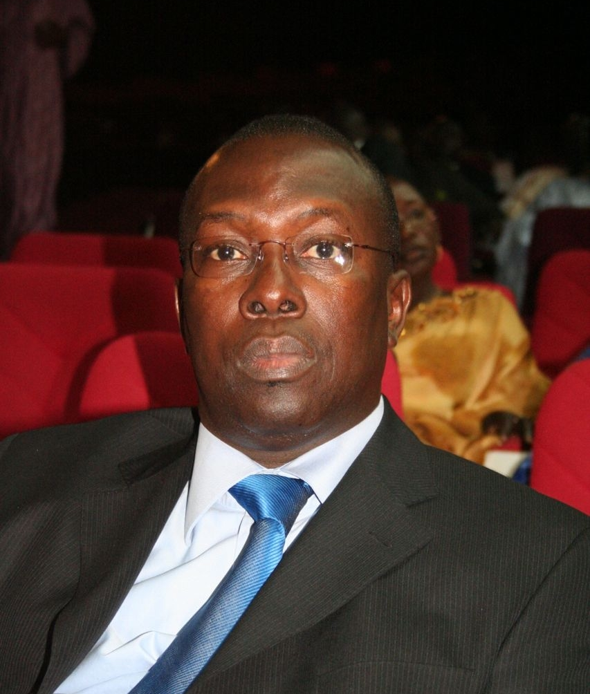 souleymane ndéné ndiaye